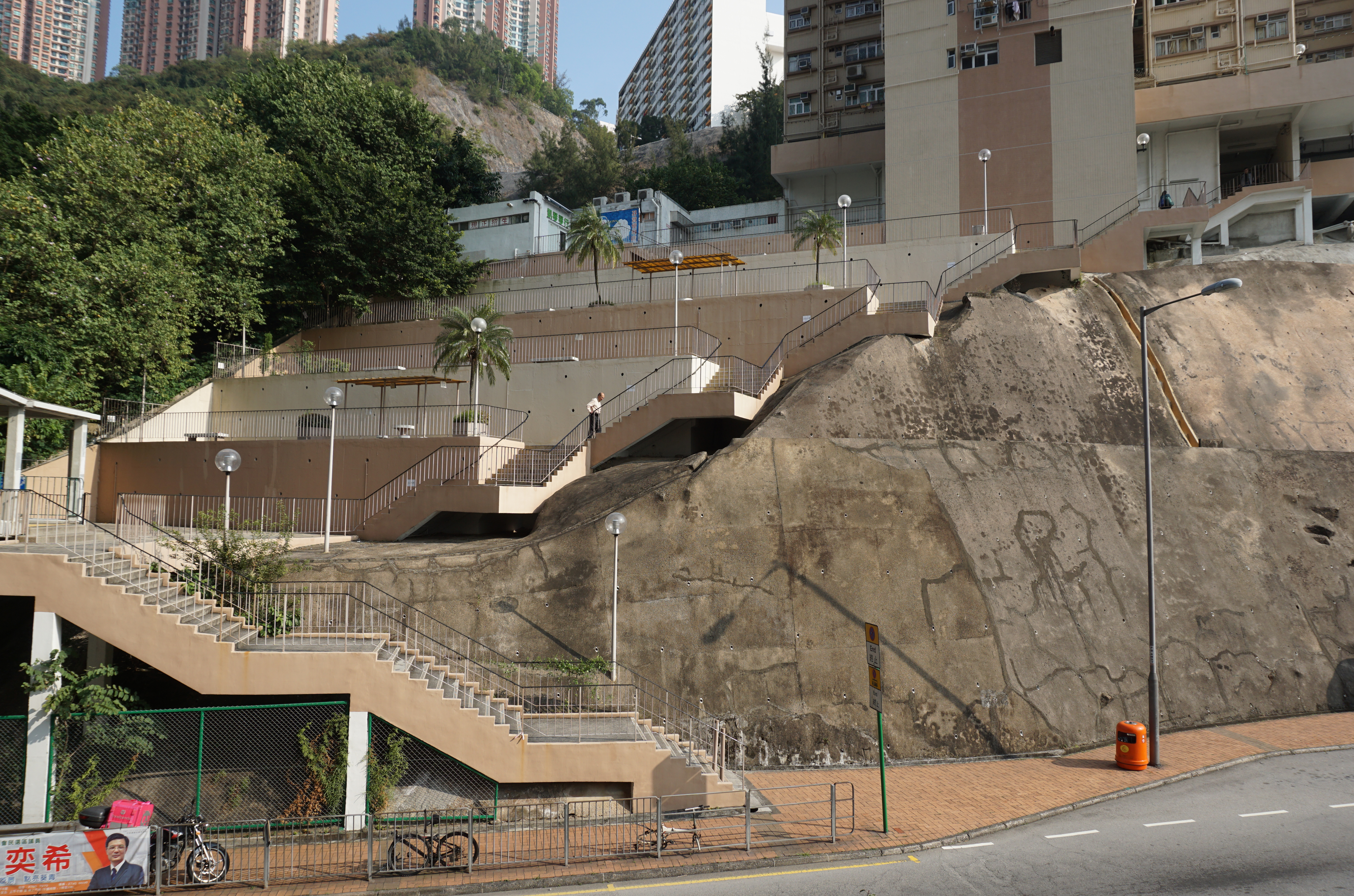 Yuet Lai Court in Lai King, Hong Kong.